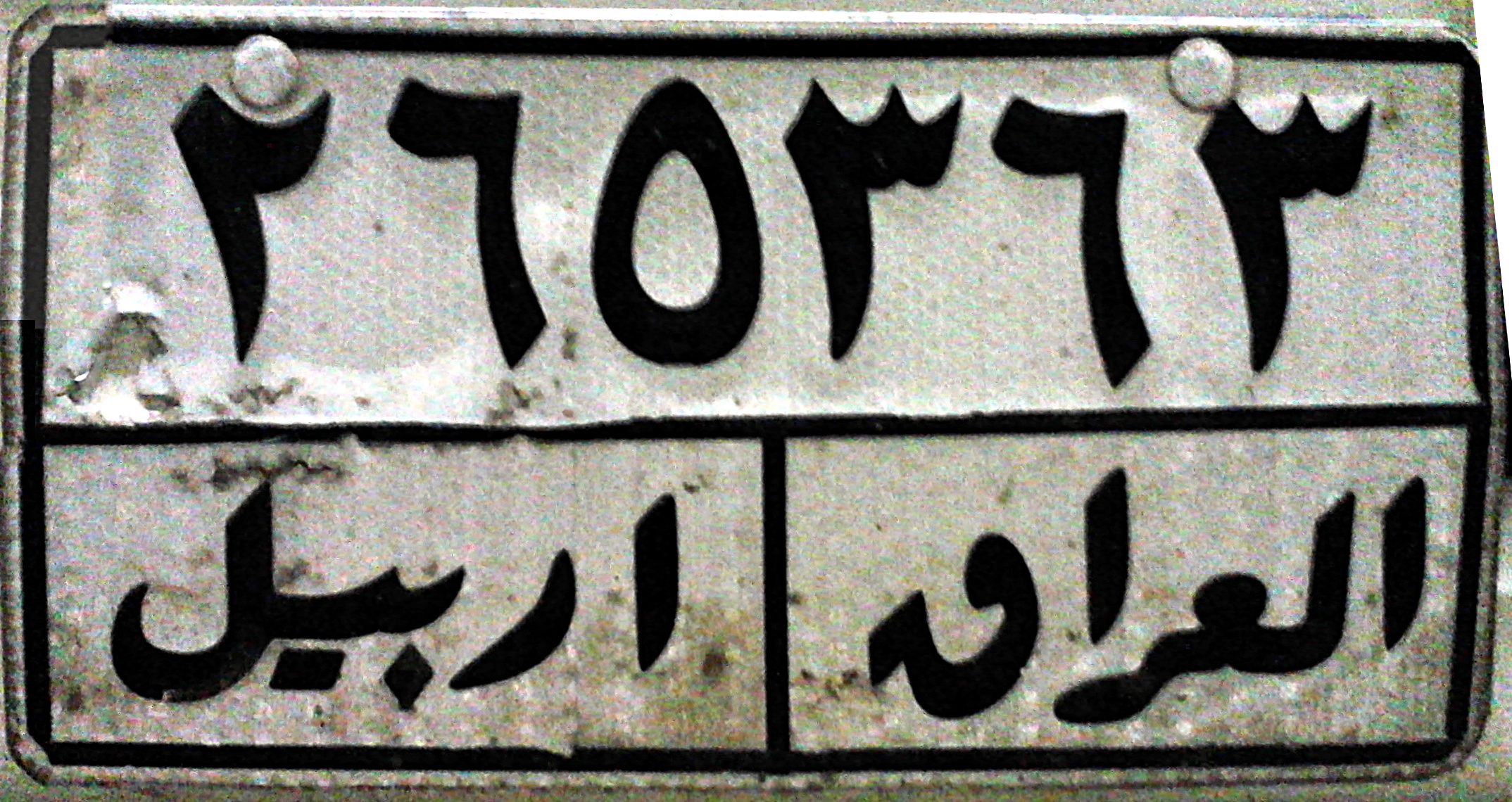 Private plate (Erbil Province in Iraq)